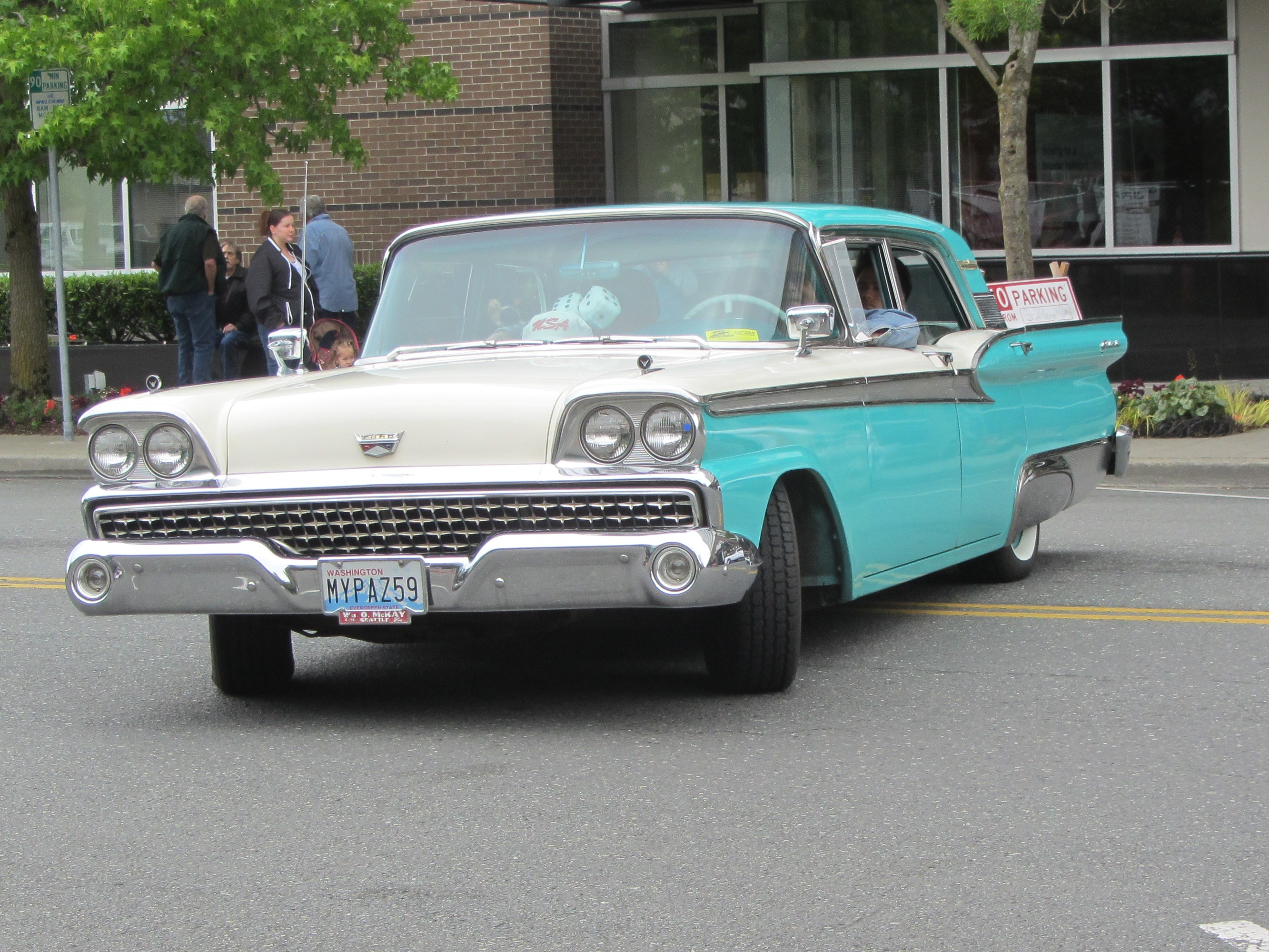 1959 Ford Galaxie